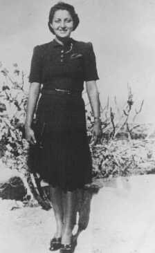 Jewish parachutist Hannah Szenes on her first day in Palestine. Haifa, Palestine, September 19, 1939.